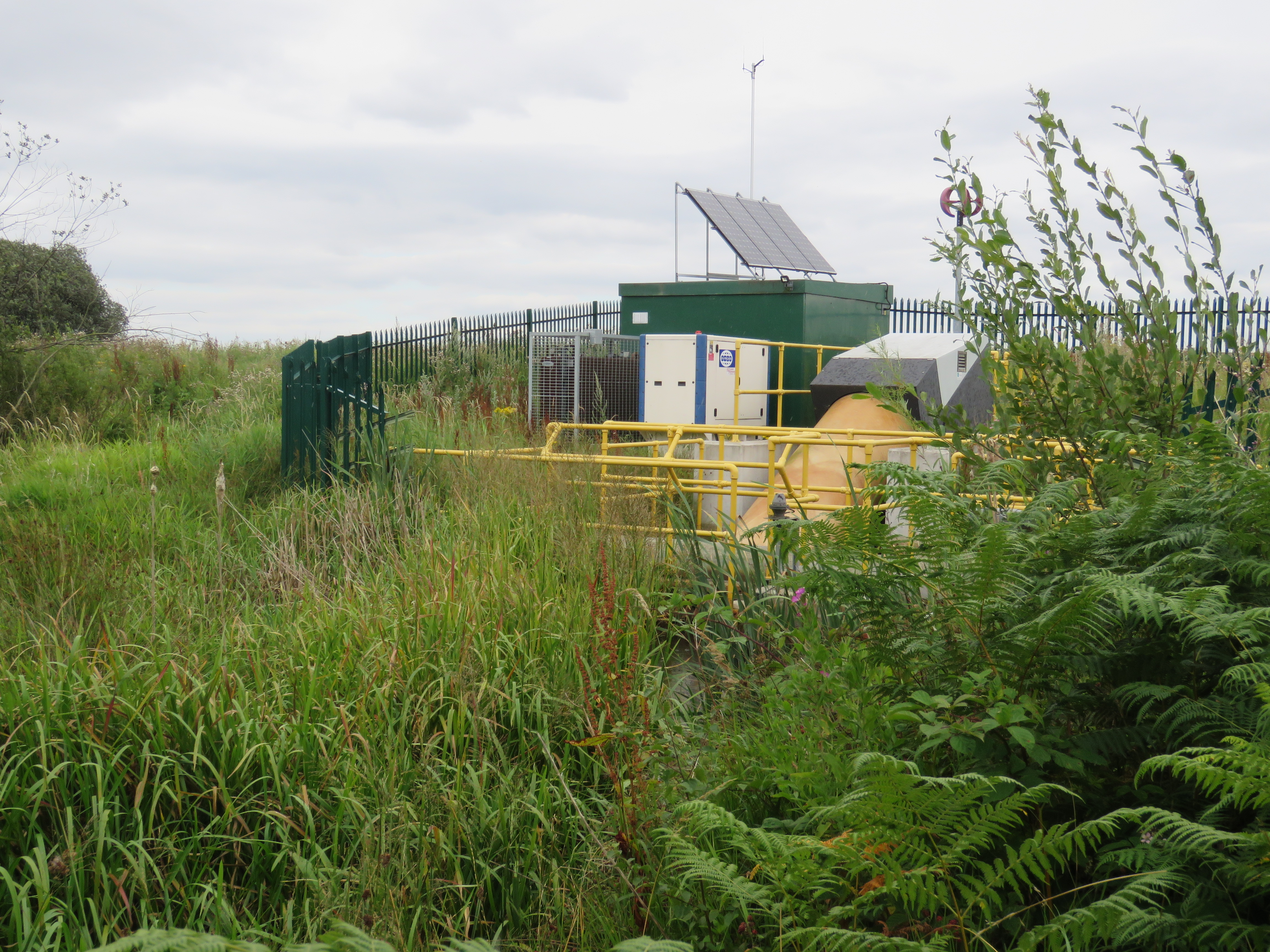 The English Nature pumping station pumps water from Blackwater Dike into Swinefleet Warping Drain, to maintain water levels in the Thorne Moors SSSI